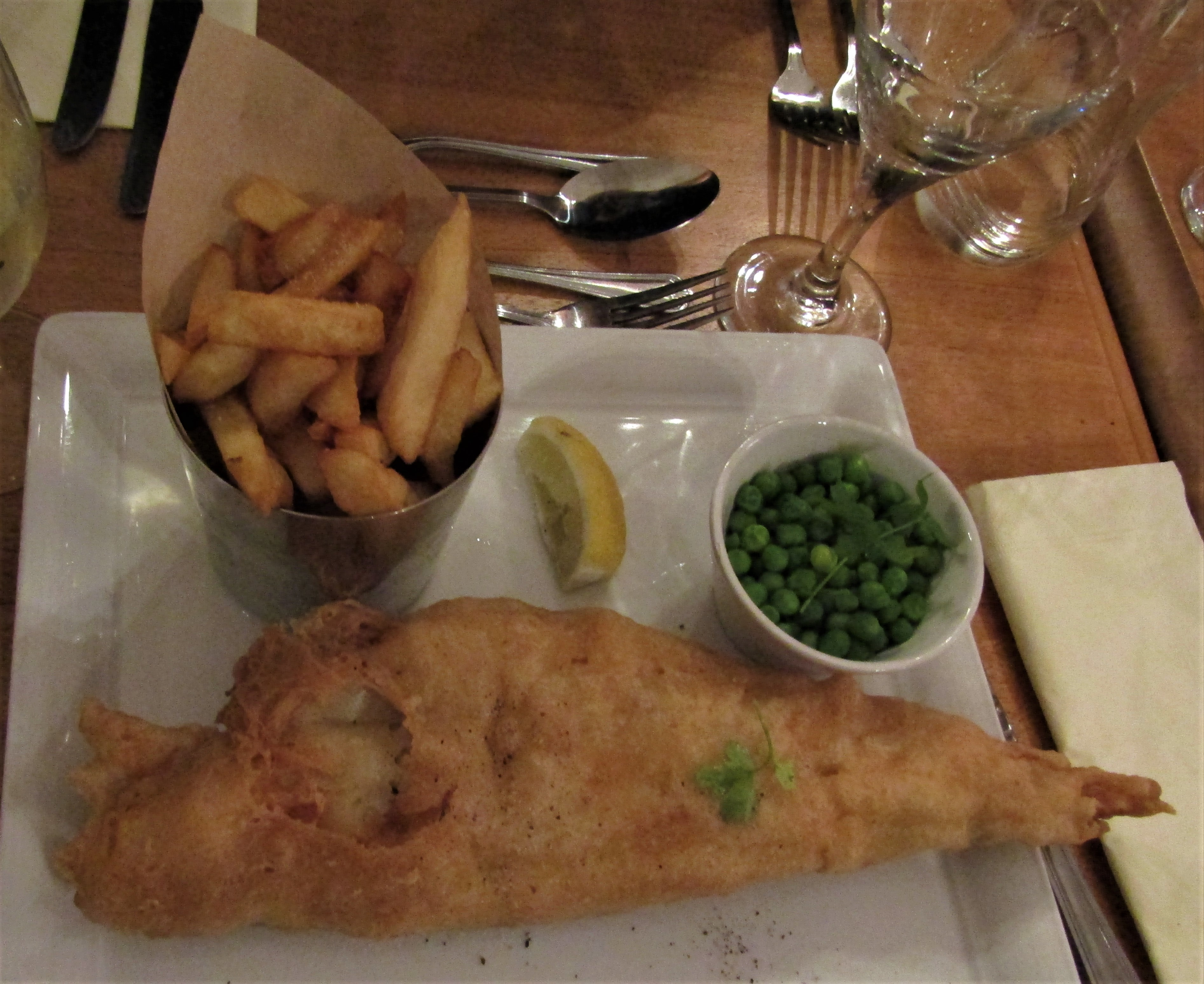 A dish of Haddock in Beer Batter, Chips and Peas prepared in a kitchen in the village of Trimingham, Norfolk, United Kingdom.